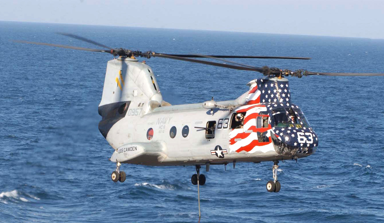 At sea aboard USS Camden (AOE 2) Mar. 15, 2003 -- A CH-46 Sea Knight assigned to Helicopter Combat Support Squadron Eleven (HC-11) lifts cargo during a vertical replenishment (VERTREP) with the aircraft carrier USS Abraham Lincoln (CVN 72). Camden are conducting flight operations in support of Operation Southern Watch. U.S. Navy photo by Photographer's Mate 3rd Class Lewis Hunsaker. (RELEASED)